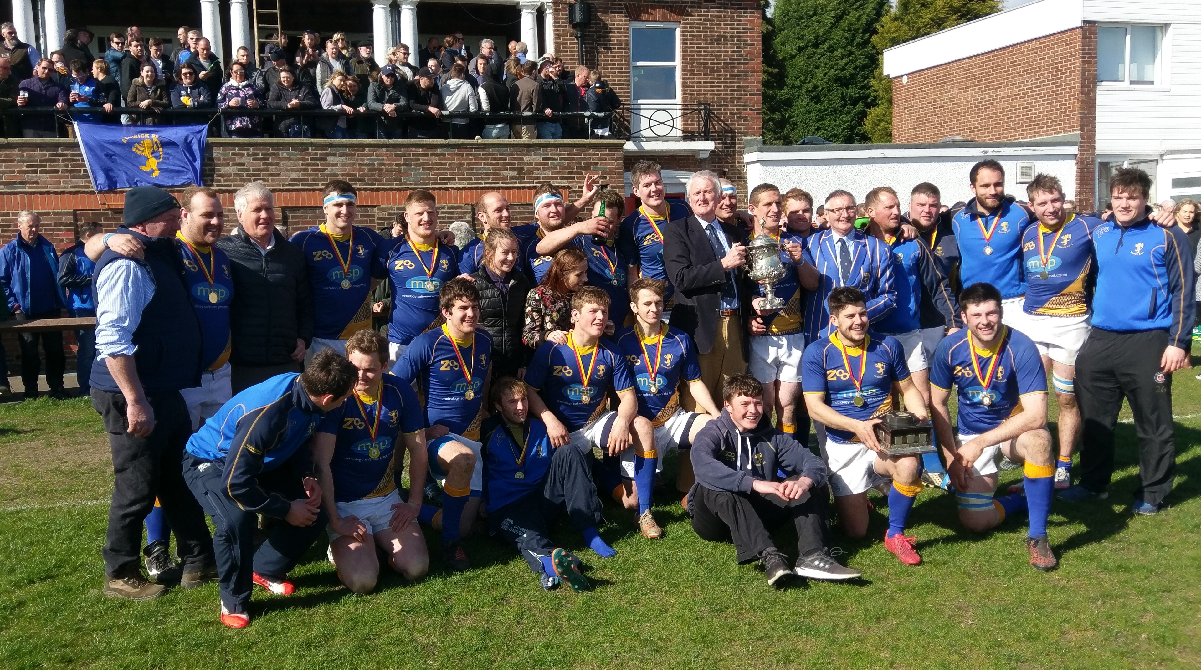 Cup17